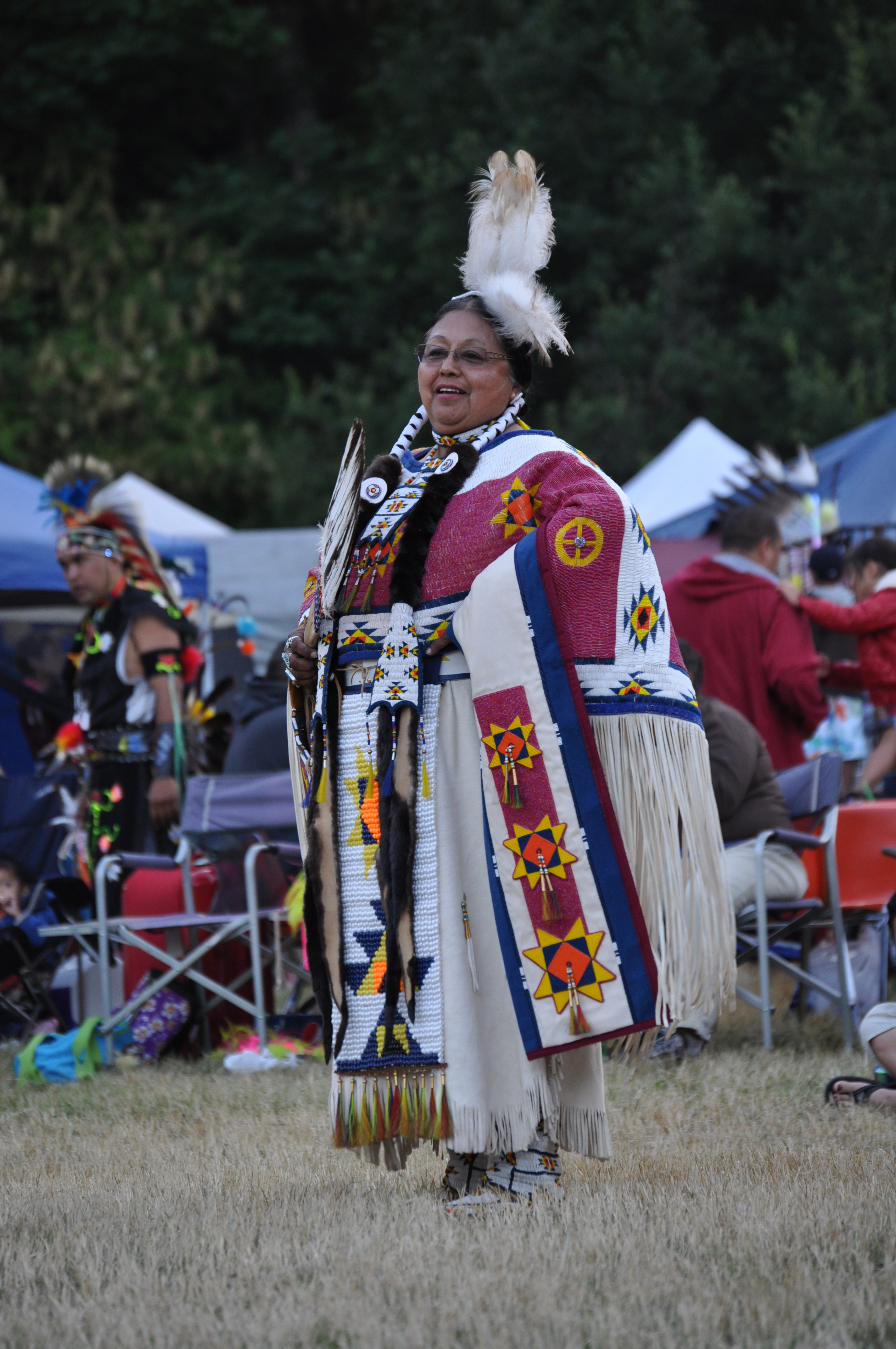 Seafair Indian Days Pow Wow, Daybreak Star Cultural Center, Seattle, Washington. The event is part of Seafair (a series of annual summer events in Seattle) and under the aegis of the United Indians of All Tribes Foundation.